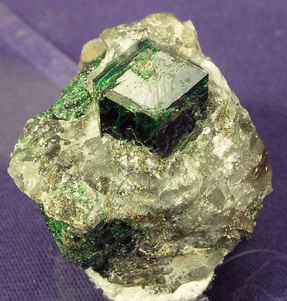 Quartz, Uvarovite Locality: Outokumpu Cu-Zn deposit, Outokumpu Cu-Co-Zn-Ni-Ag-Au ore field, Itä-Suomen Lääni, Finland (Locality at ) Size: thumbnail, 2.6 x 2.5 x 2.3 cm Uvarovite on Quartz A sharp, lustrous, deep green Uvarovite garnet crystal with excellent emerald-green color from the famous Outokumpu Mine of Finland. The sharp, 1.2 cm crystal has textbook dodecahedral form and is in remarkably good condition. Uvarovite is the calcium chromium garnet group end member. This is a classic specimen from a premier locality, with a relatively large crystal. It makes for a very aesthetic thumbnail